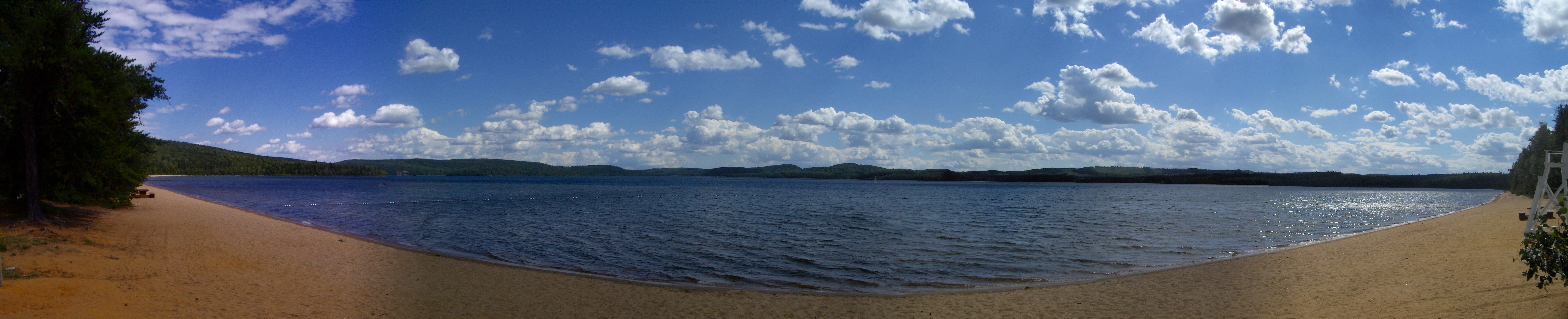 plage Lac Normand